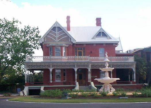 Rio Vista, Mildura, Victoria, Australia. Photograph taken by myself, September 26, 2007.